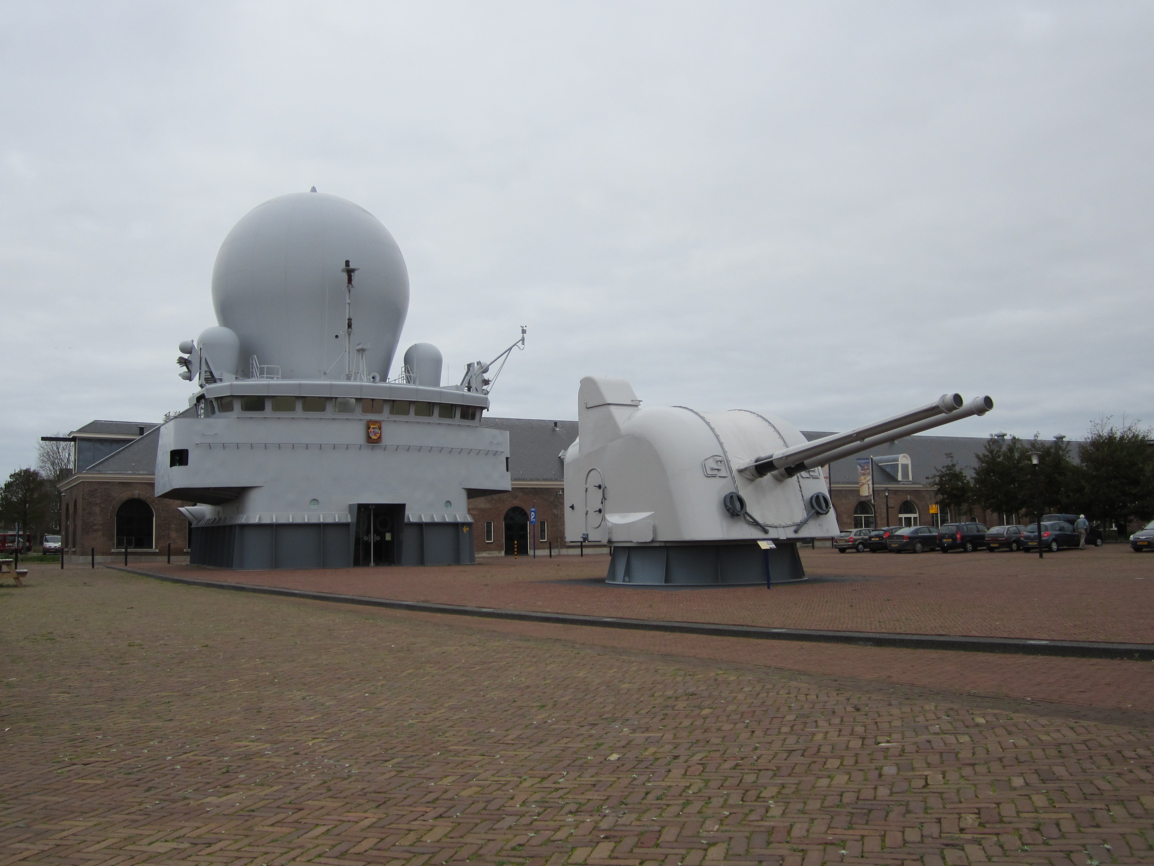 The bridge and forward gun turret of the former HNLMS De Ruyter (F806) at the Dutch Naval Museum in Den Helder